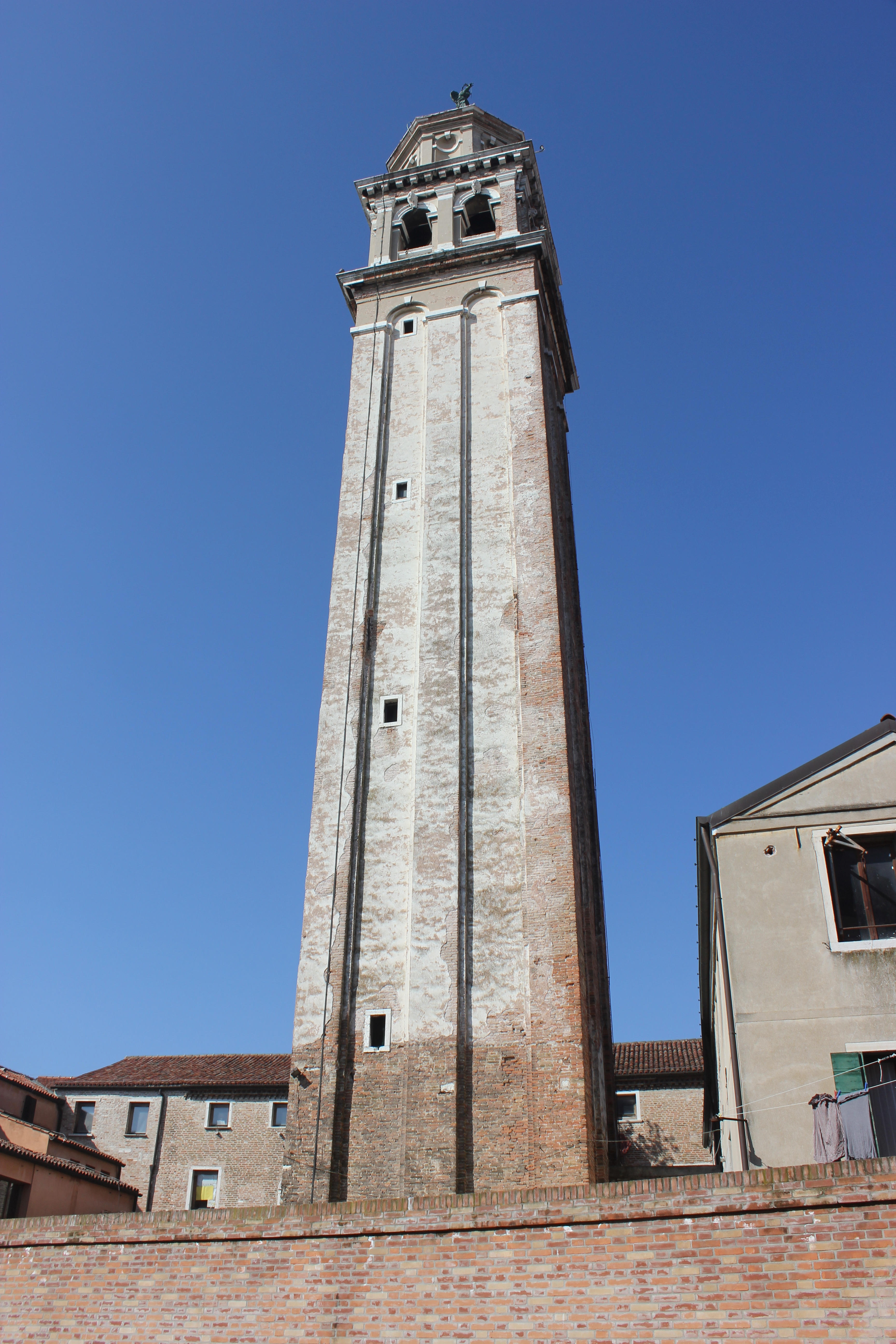 Venice - campanile of the Santa Maria dei Carmini church